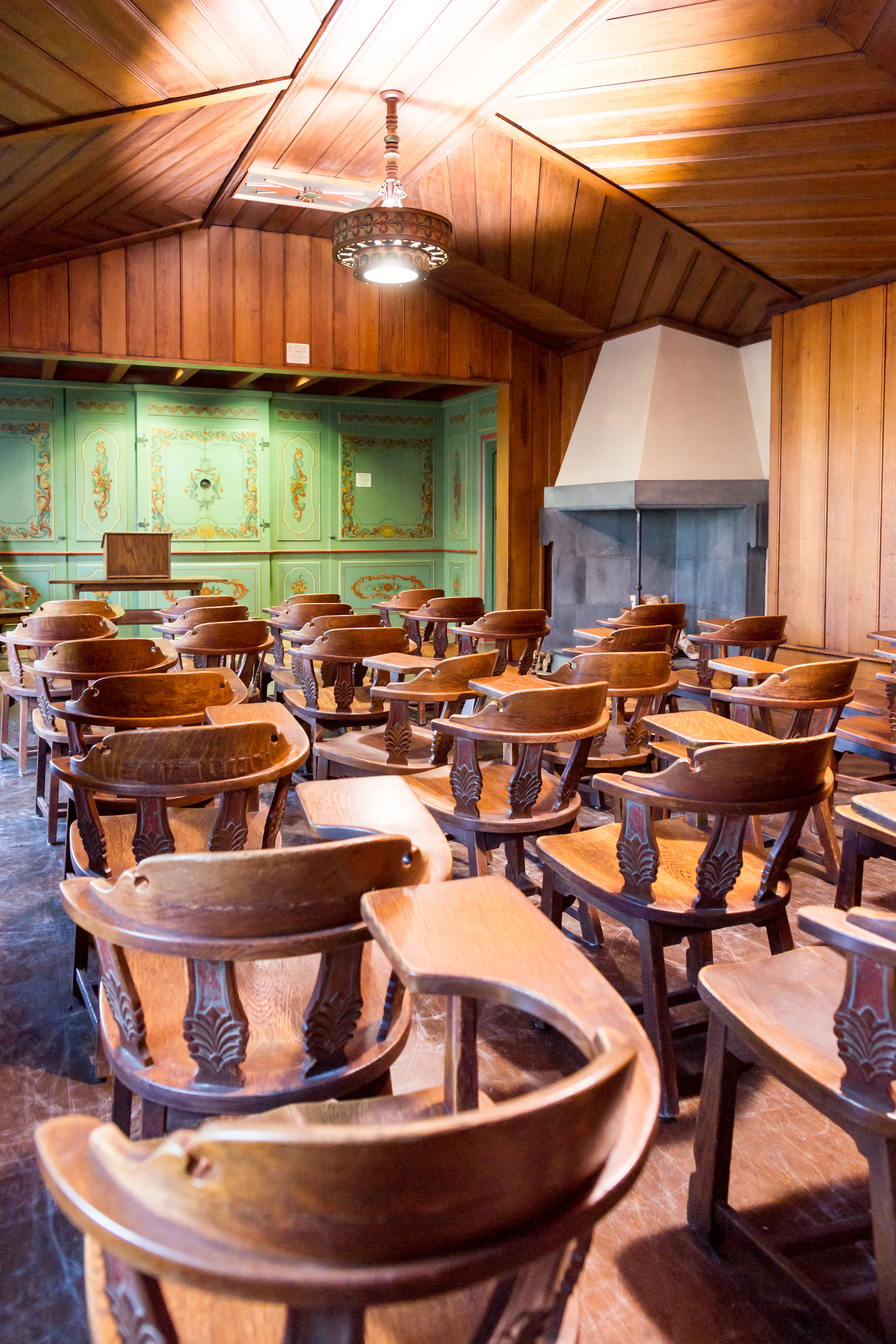 Norwegian Nationality Room in the Cathedral of Learning at the University of Pittsburgh